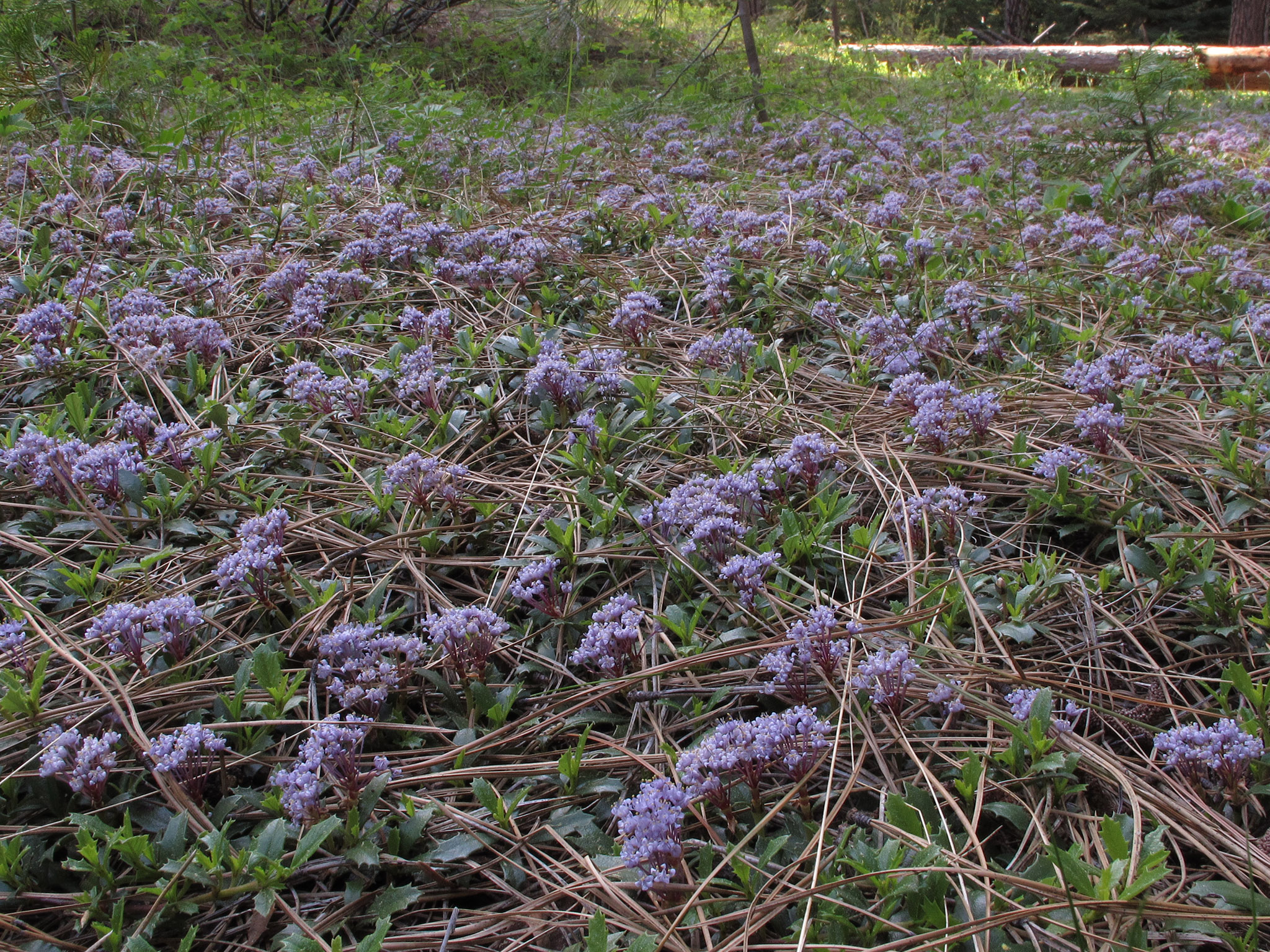 Mahala mat and pine needles at Crystal Springs Day Use Area, Fremont-Winema National Forest, Oregon